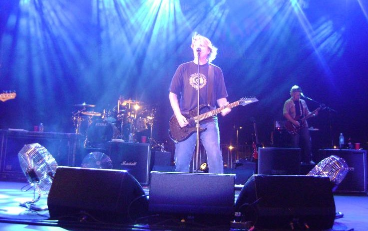 The Offspring Live @ Charlotte, NC 20-09-2008